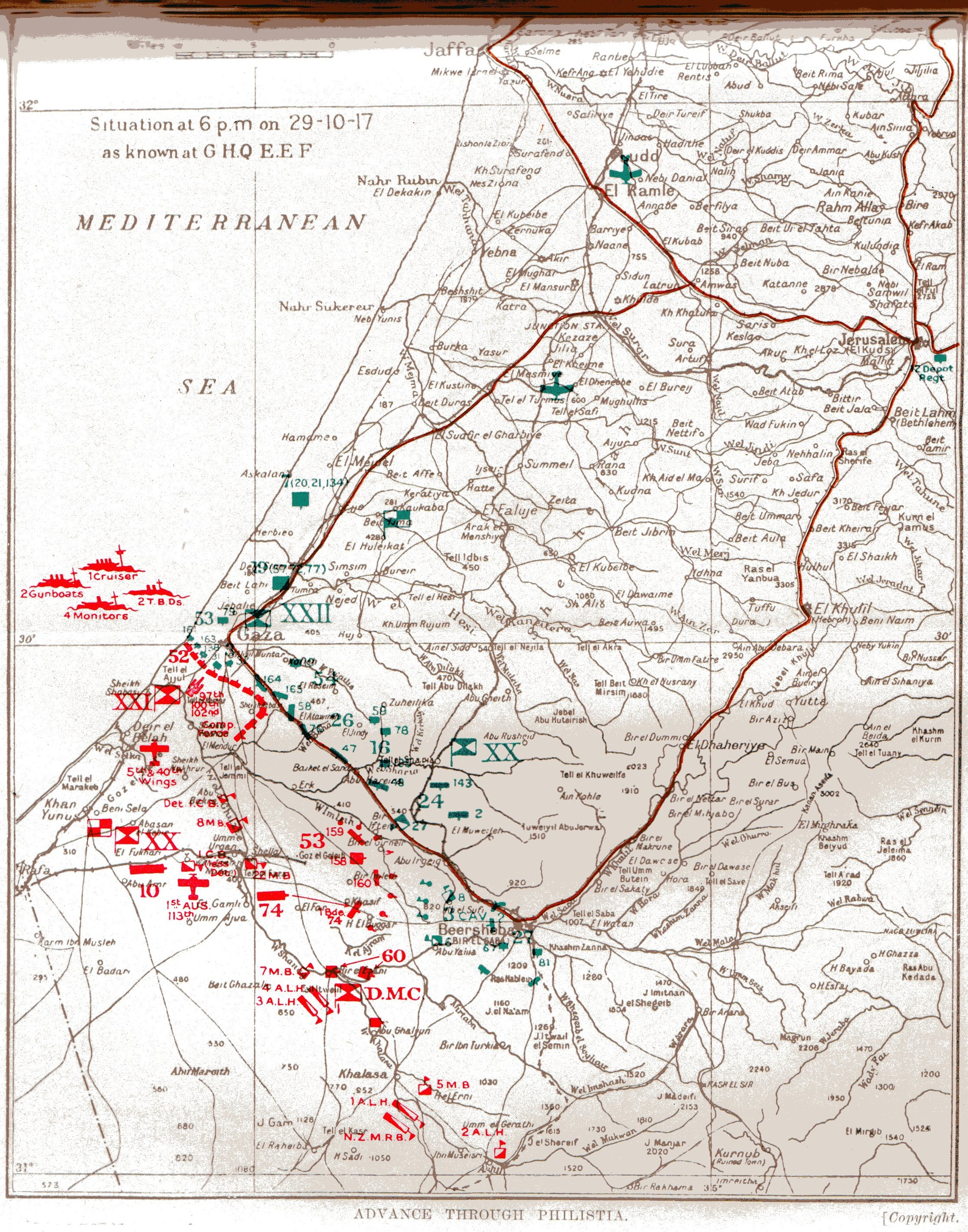 Map shows situation on 29 October 1917 as known to GHQ EEF